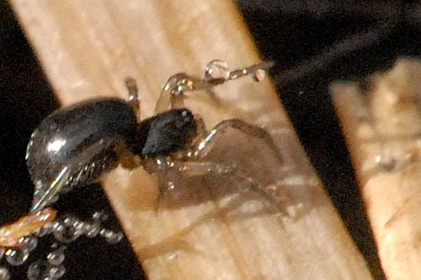 Walckenaeria stylifrons from Commanster, Belgian High Ardennes .